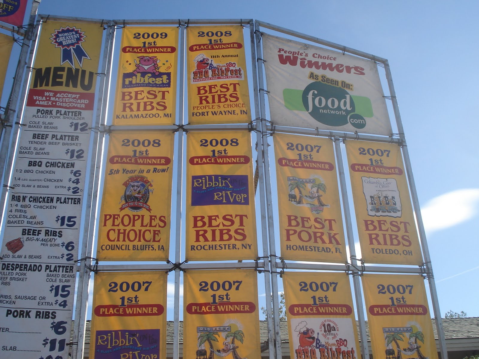 Awards on display at the Best in the West Nugget Rib Cook-Off